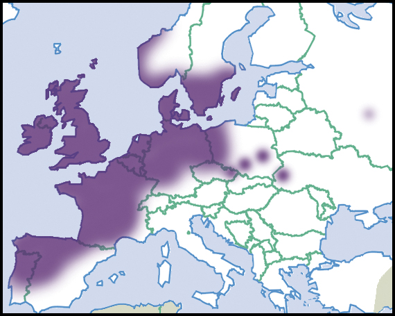 Aegopinella nitidula (Draparnaud, 1805). Distributional range in Europe, scientific state of knowledge of 2012. Source description in English. Light colour indicated rare occurrences or regions where the species could eventually be expected to occur. Dark colour indicated relatively reliable occurrences, as well as regions where the species was expected to occur, and where the species was not known to be extremely rare. Dark colour indications were not necessarily based on published records Species summary in AnimalBase